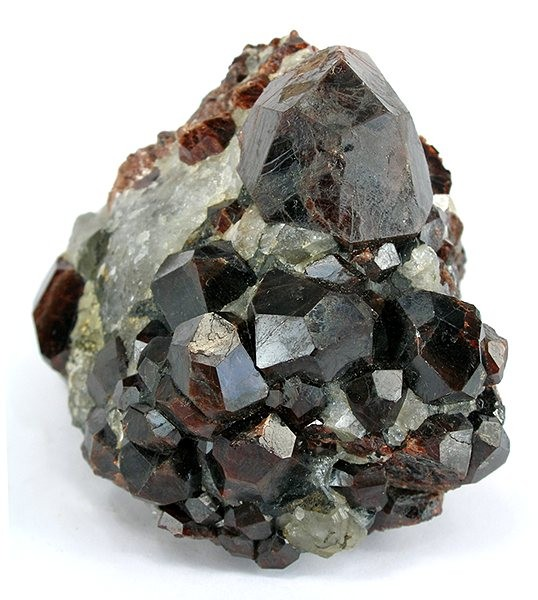 Garnet Locality: Aggeneys, Northern Cape Province, South Africa (Locality at ) Size: 7.6 x 5.8 x 5.5 cm. A rare garnet, and in large size too, from this remote, little-known specimen producing mine. The large crystal is 2.5 cm. Ex. Charlie Key.